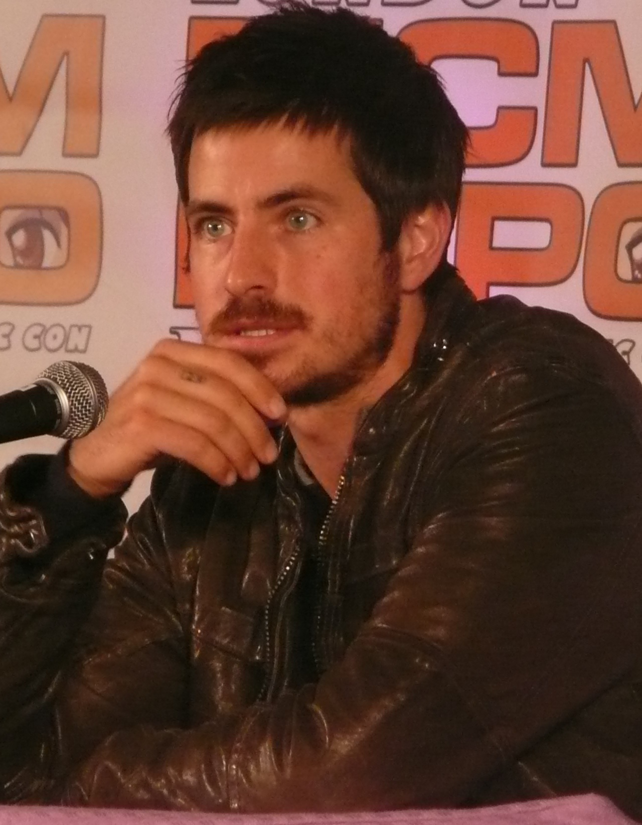 Craig Olejnik at the MCM Expo, London. 2011. Photo was taken by myself